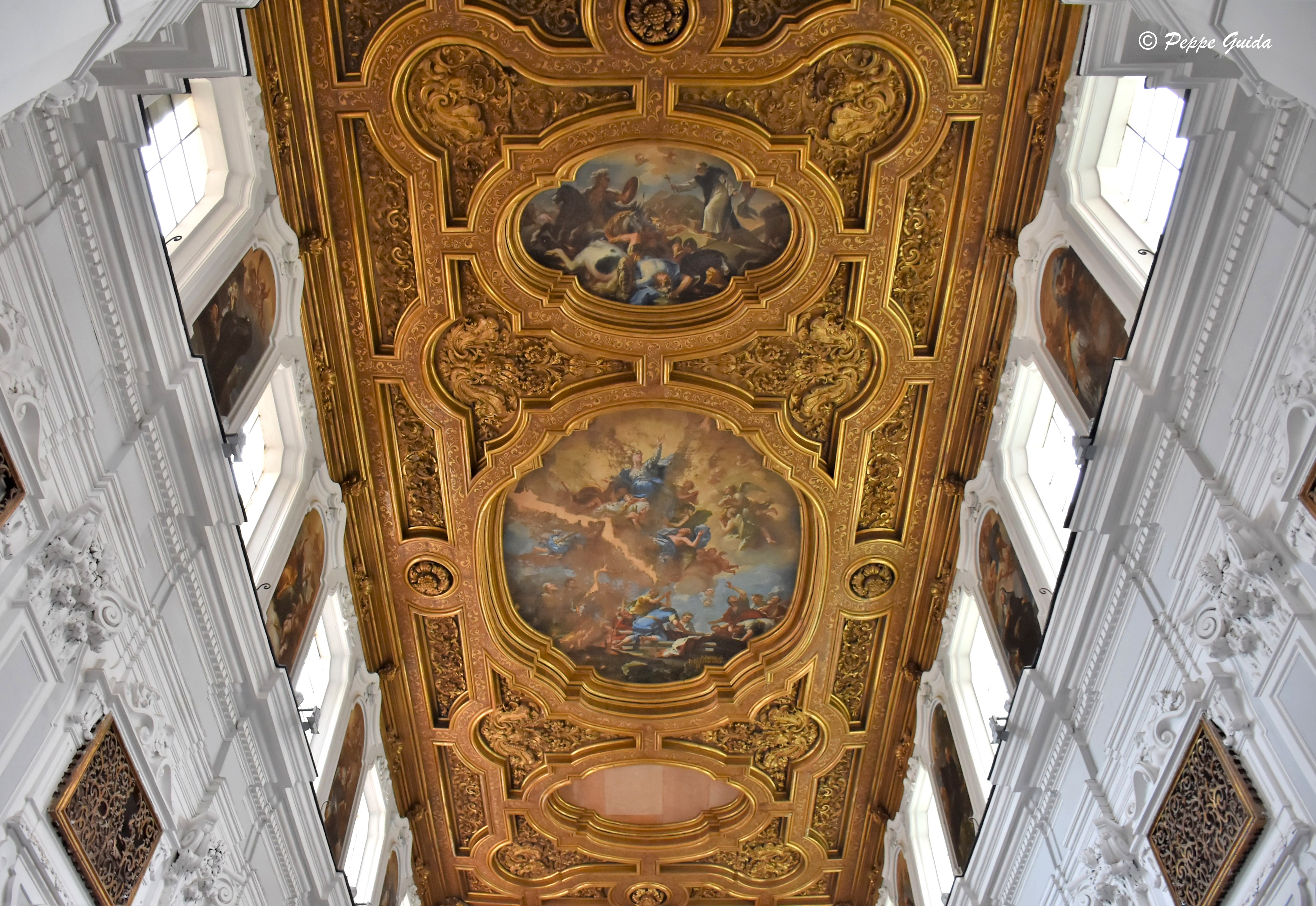 Frescoed ceiling